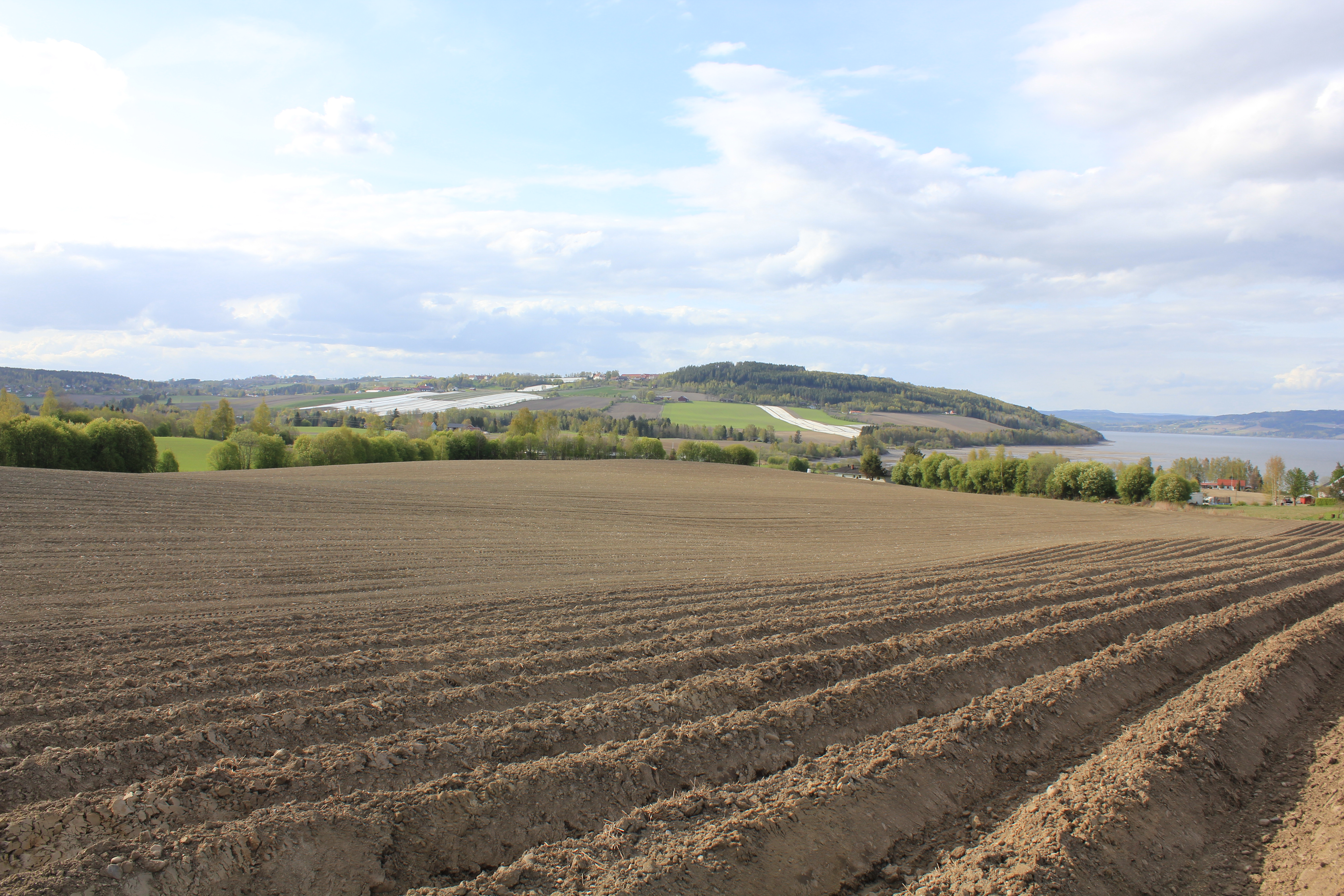 Balke seen from Totenvika. Lake Mjøsa at right. Østre Toten, Norway